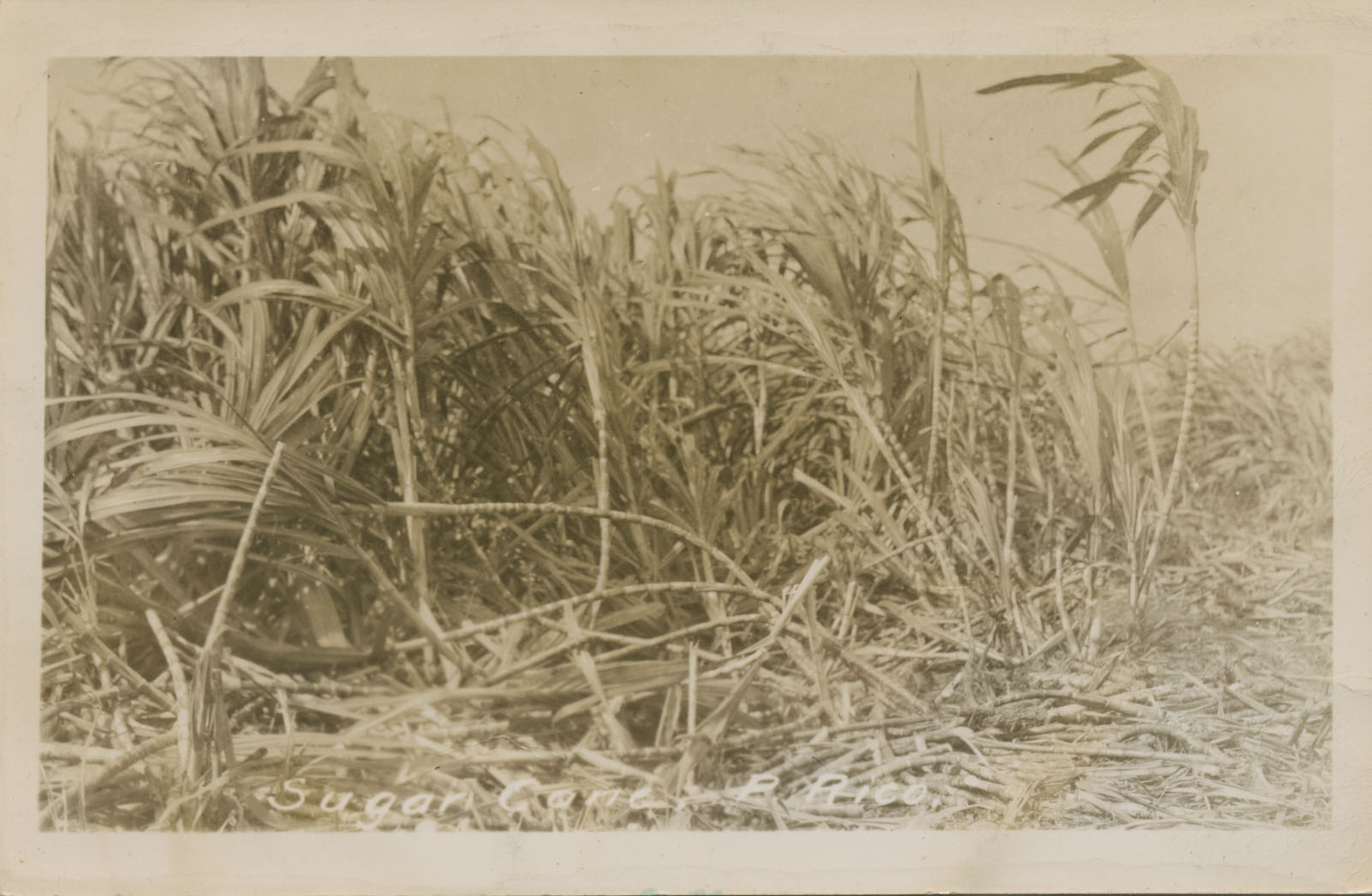 Attilio Moscioni, Real-photo postcard. Gleach/Santiago-Irizarry Collection